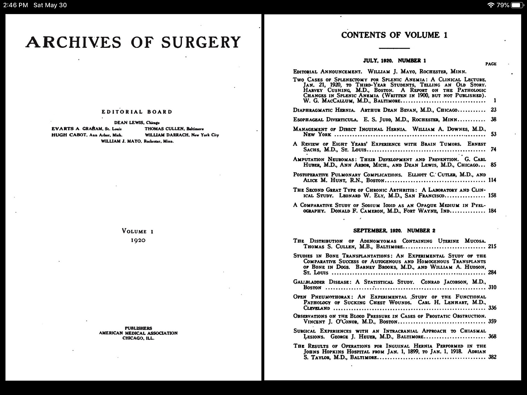 Image of table of contents of 1920 index of early issues of the American Medical Association's journal Archives of Surgery, including inaugural issue of the publication, July 1920.